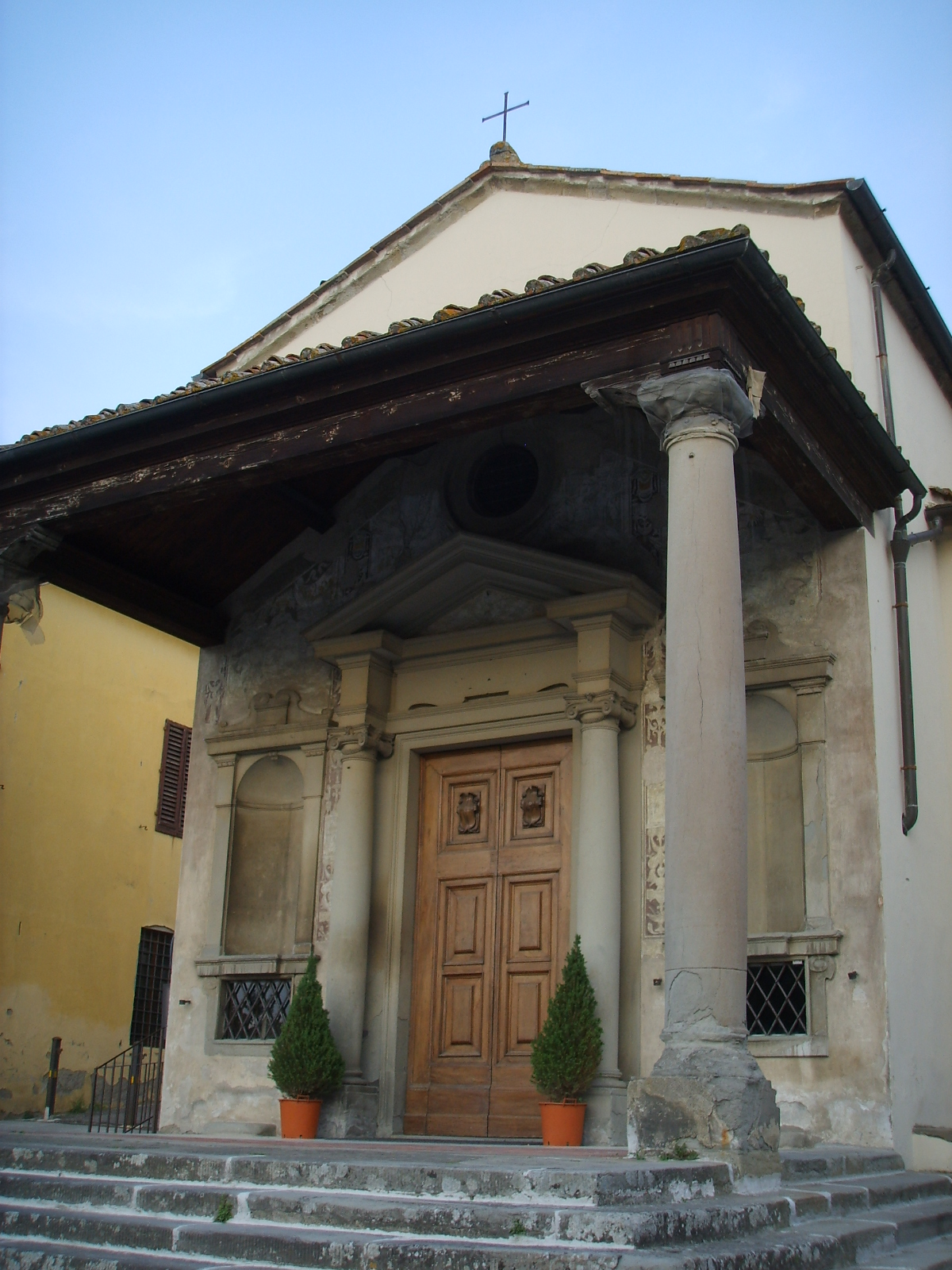 Church of Santa Maria Primerana, Fiesole